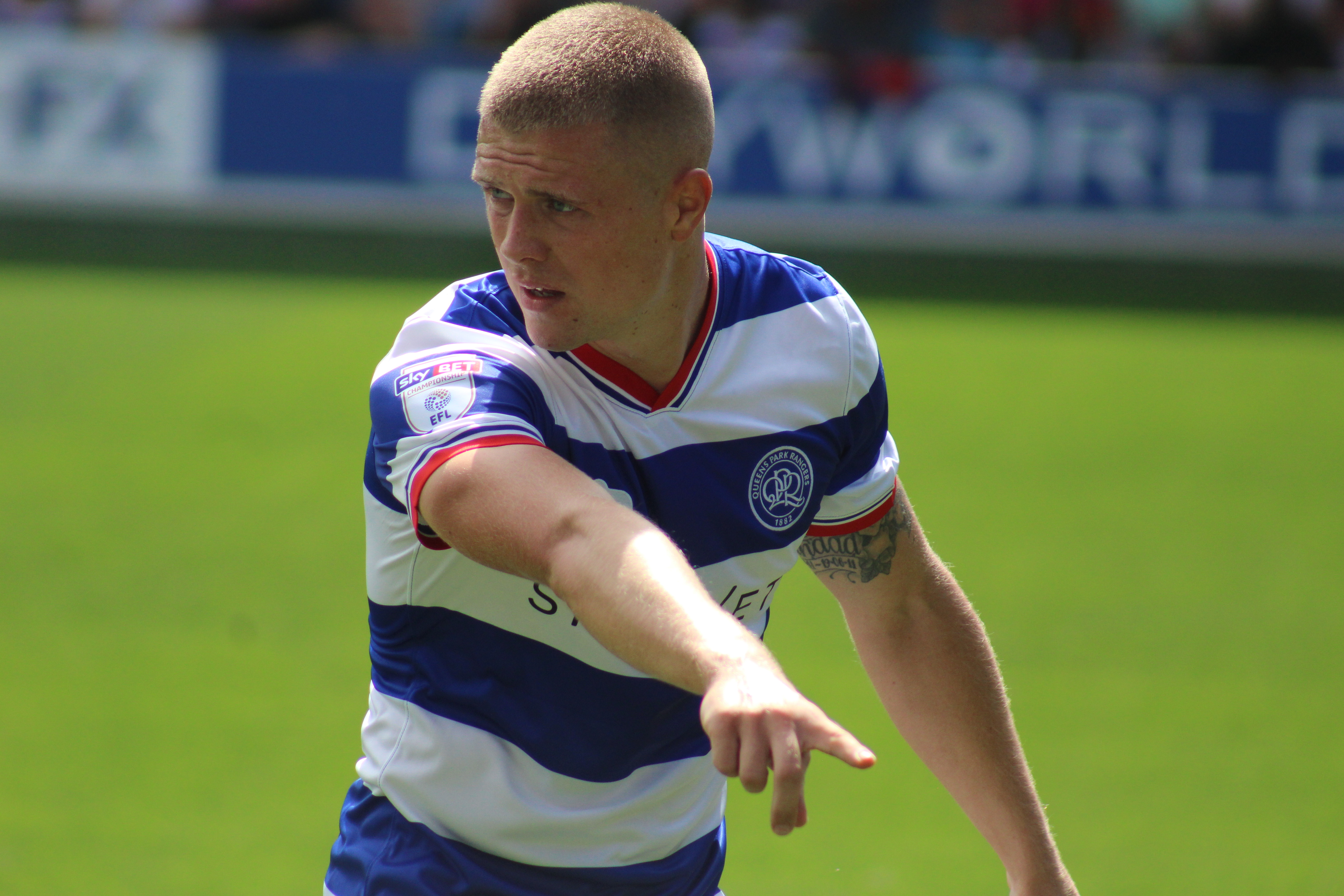 Bidwell in action for Queens Park Rangers